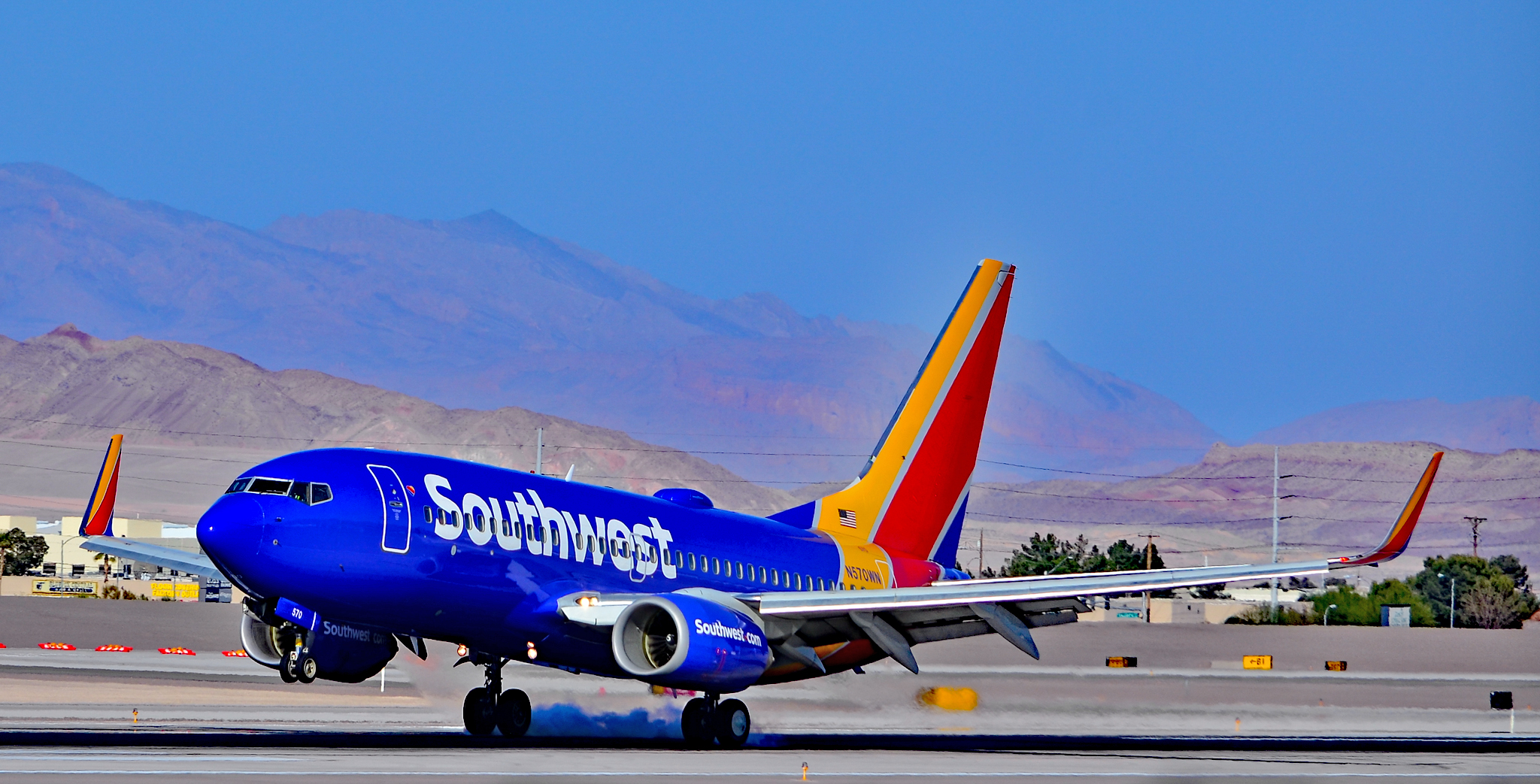 Ex WestJet C-FWAO Las Vegas - McCarran International (LAS / KLAS) USA - Nevada, March 16, 2016 Photo: Tomás Del Coro